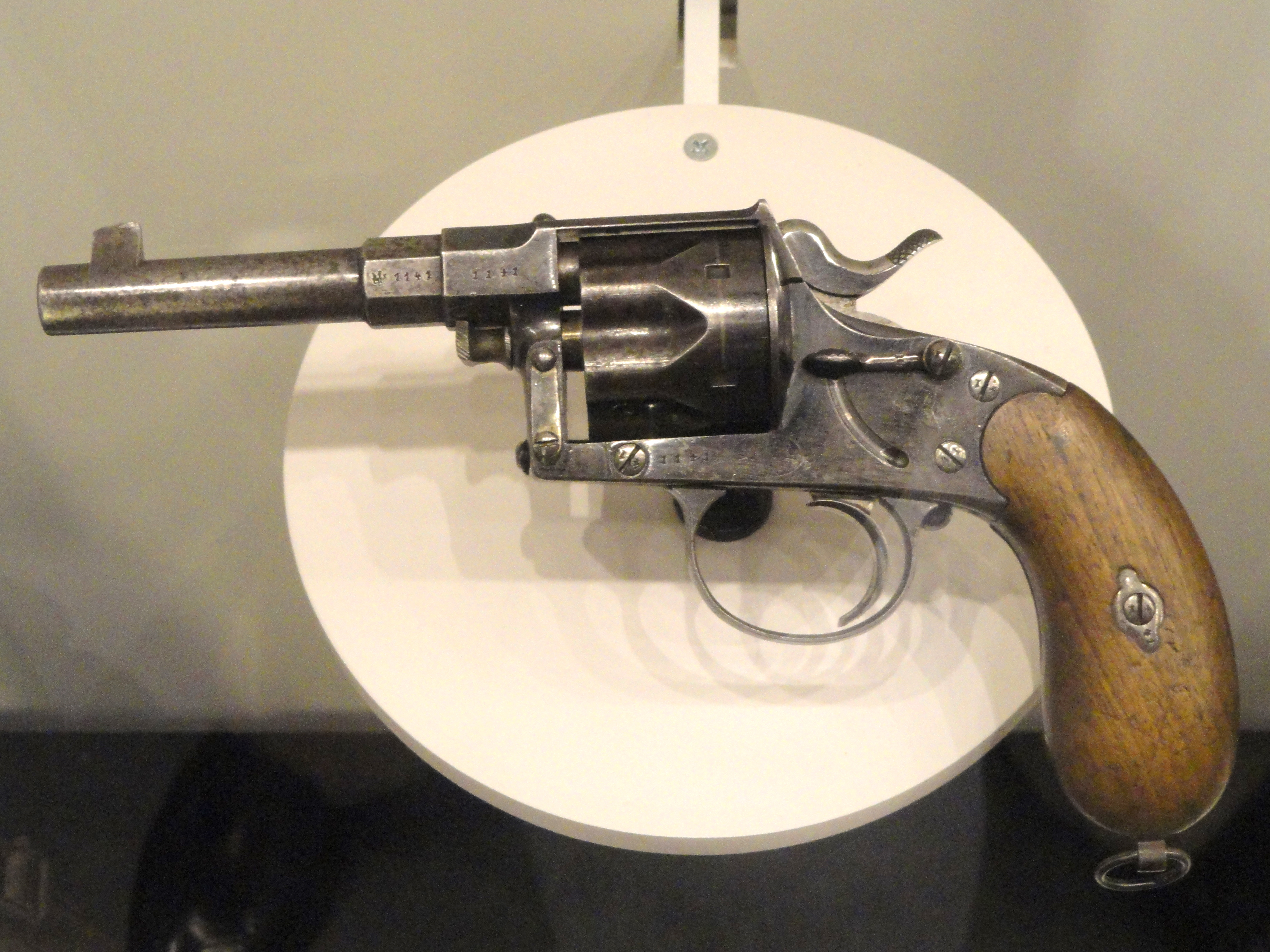 Handgun exhibited in the National World War I Museum at the Liberty Memorial, 100 W. 26th Street, Kansas City, Missouri, USA.